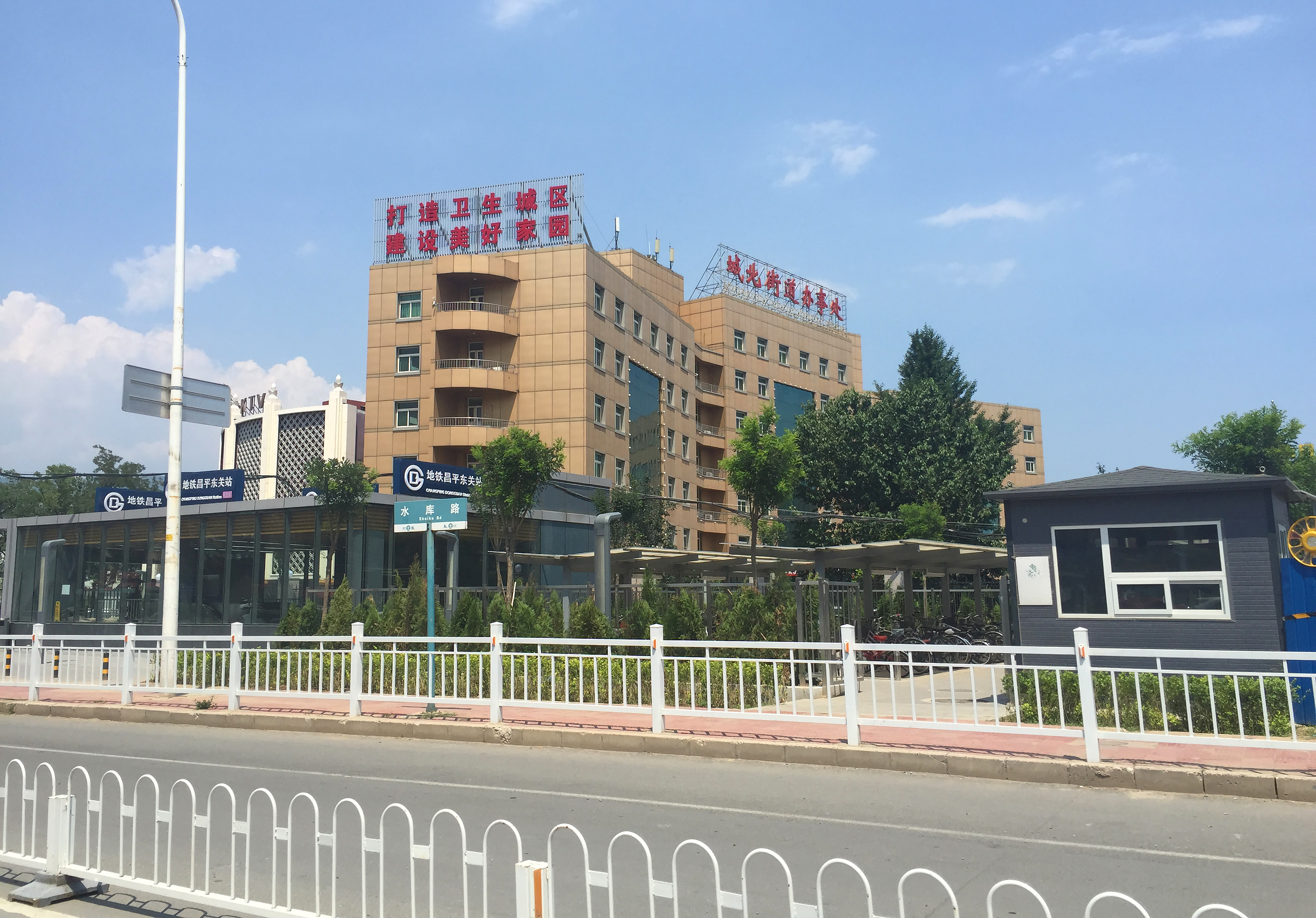 FYI: Changping Dongguan isn't Changping, Dongguan. What would happen if someone headed for Changping, Dongguan, but ended up disembarking here...